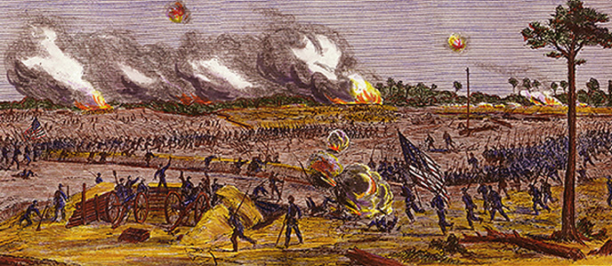 Storming of Fort Blakeley, U.S. battle April 2-9, 1865. "Probably the last charge of this war, it was as gallant as any on record."